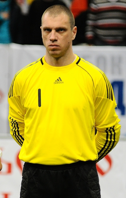 Alexandr Filimonov at 2011 Legends Cup